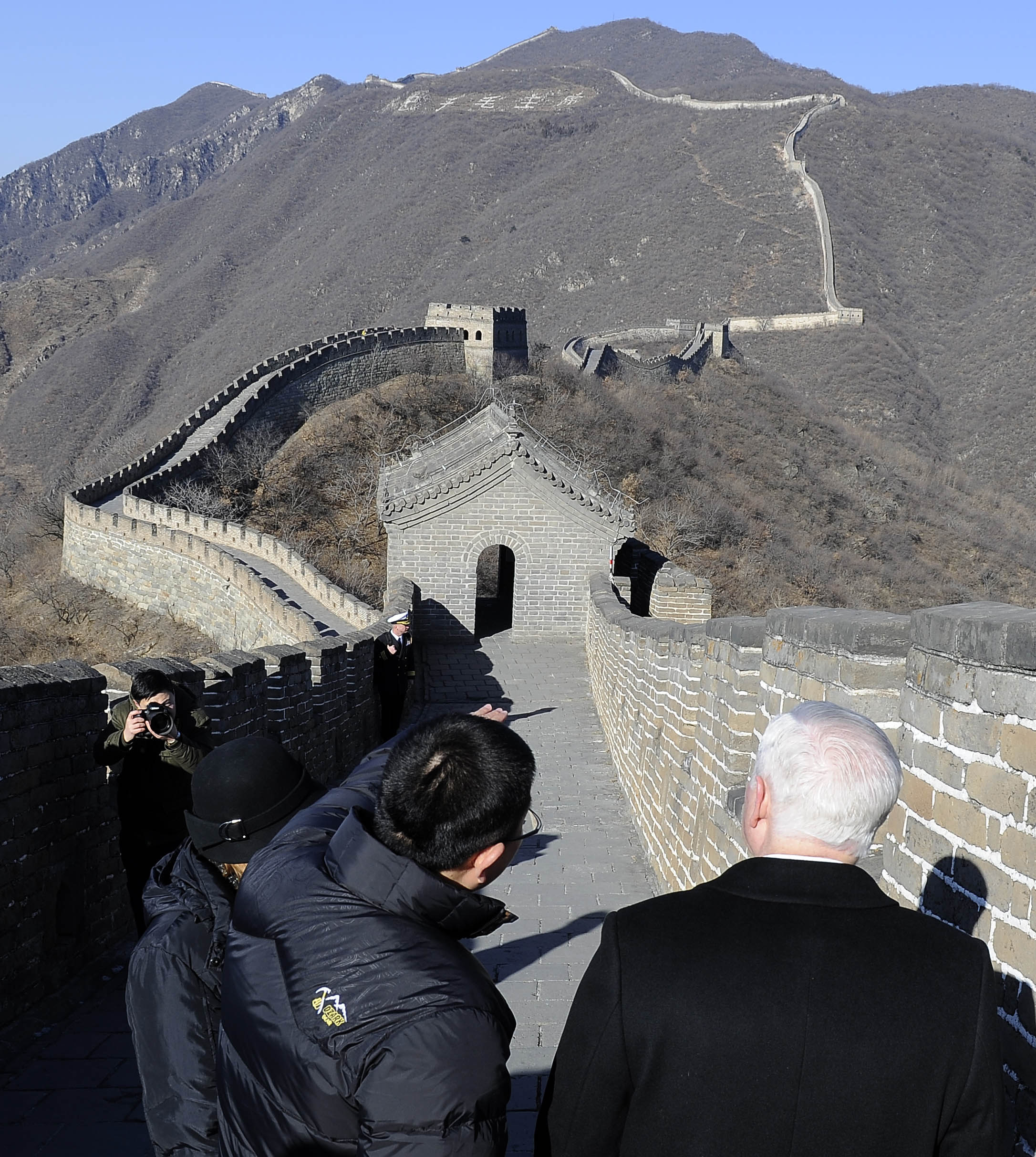 Secretary of Defense Robert M. Gates and wife Becky receive a tour at the Great Wall of China in Mutianyu, China, on Jan. 12, 2011. Gates wrapped up a 4-day trip to China by visiting the People's Liberation Army 2nd Artillery Group and the Great Wall.